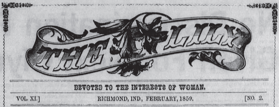 The Lily was a newspaper published by and for women. It was first published in Seneca Falls by Amelia Bloomer and beginning in 1855 by Mary B. Birdsall in Richmond, Indiana.